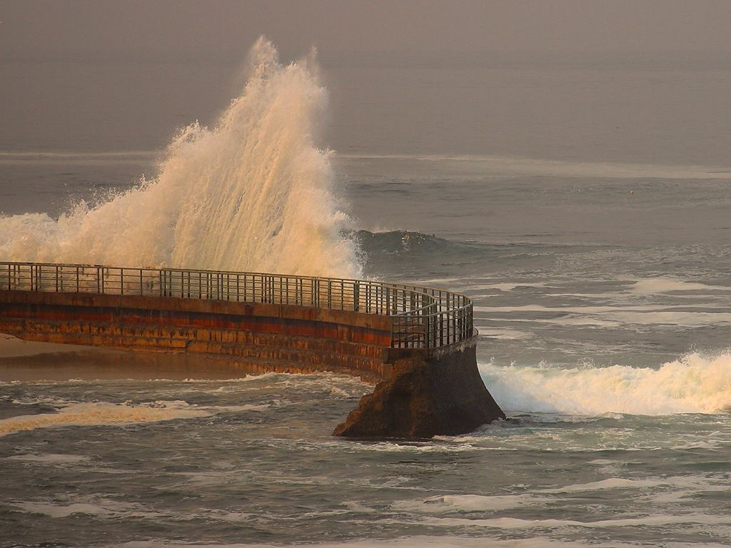 Dalga kıranlar